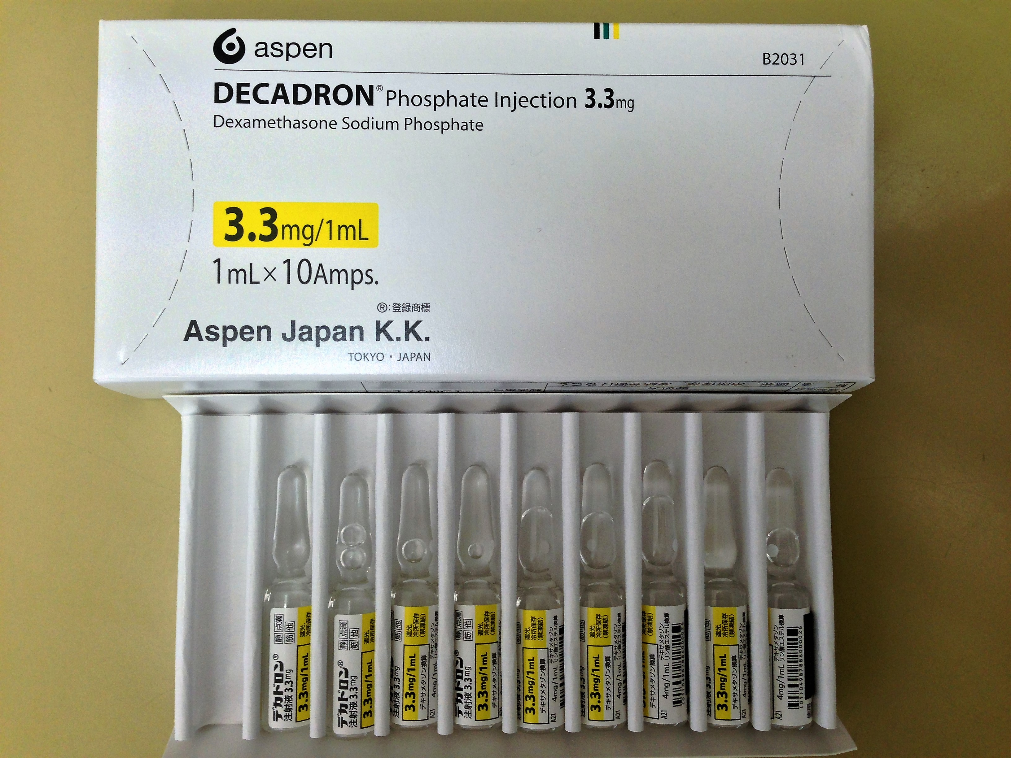 Dexamethasone （Decadron)